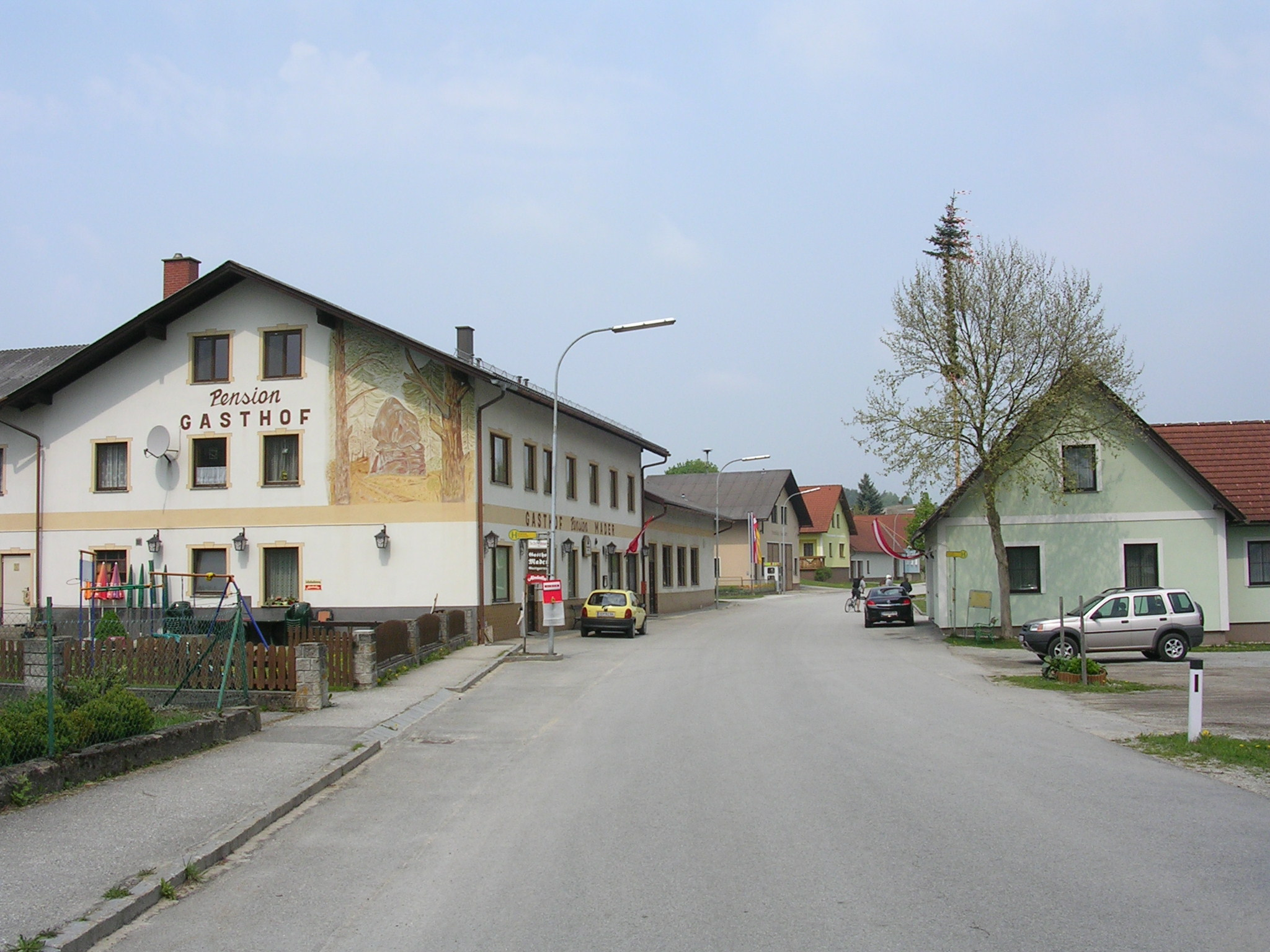 Haugschlag, Austria.